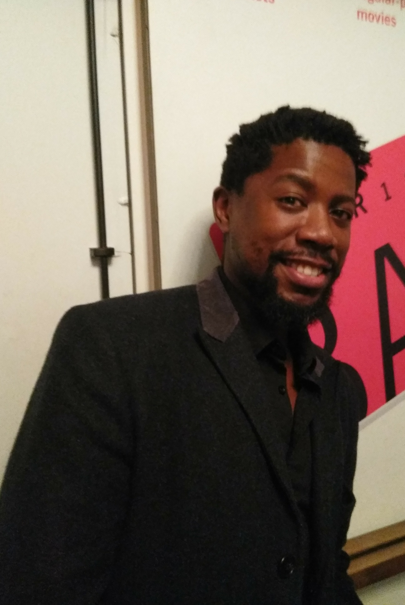 2018 - photo by Linda Fletcher